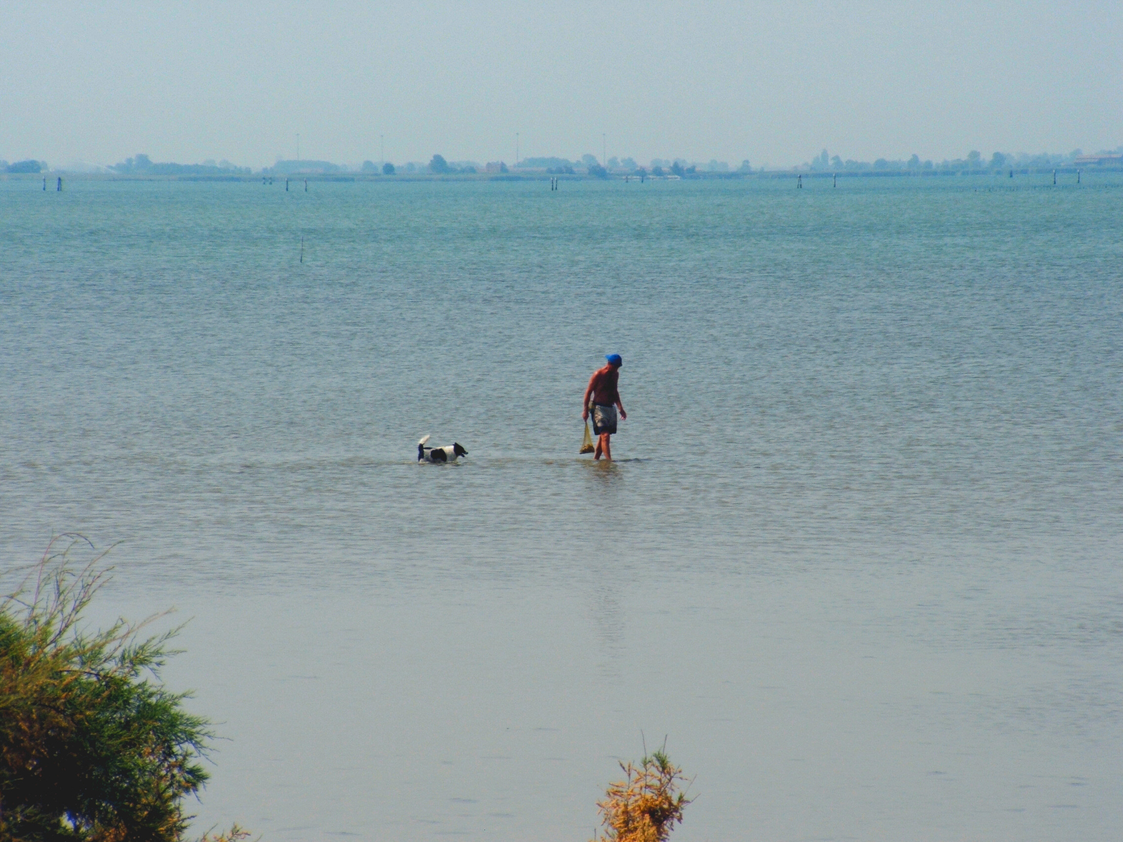 Lignano Sabbiadoro (UD), Italy - Lagoon of Marano